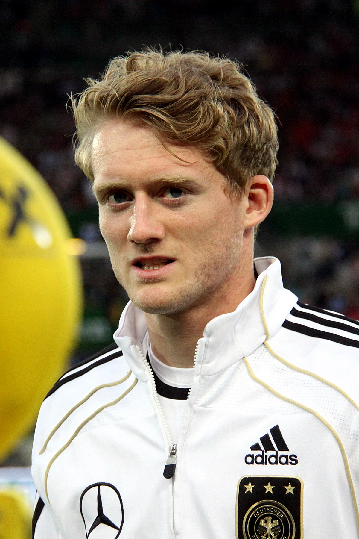 André Schürrle (Mainz 05), german national football team